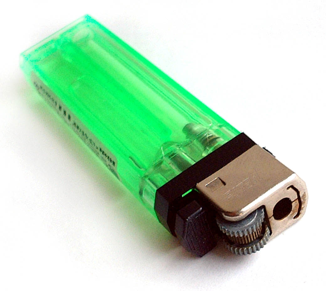 Lighter, photo taken in Japan. This kind of Lighter is cheap priced and sometimes distributed free in sales promotion.